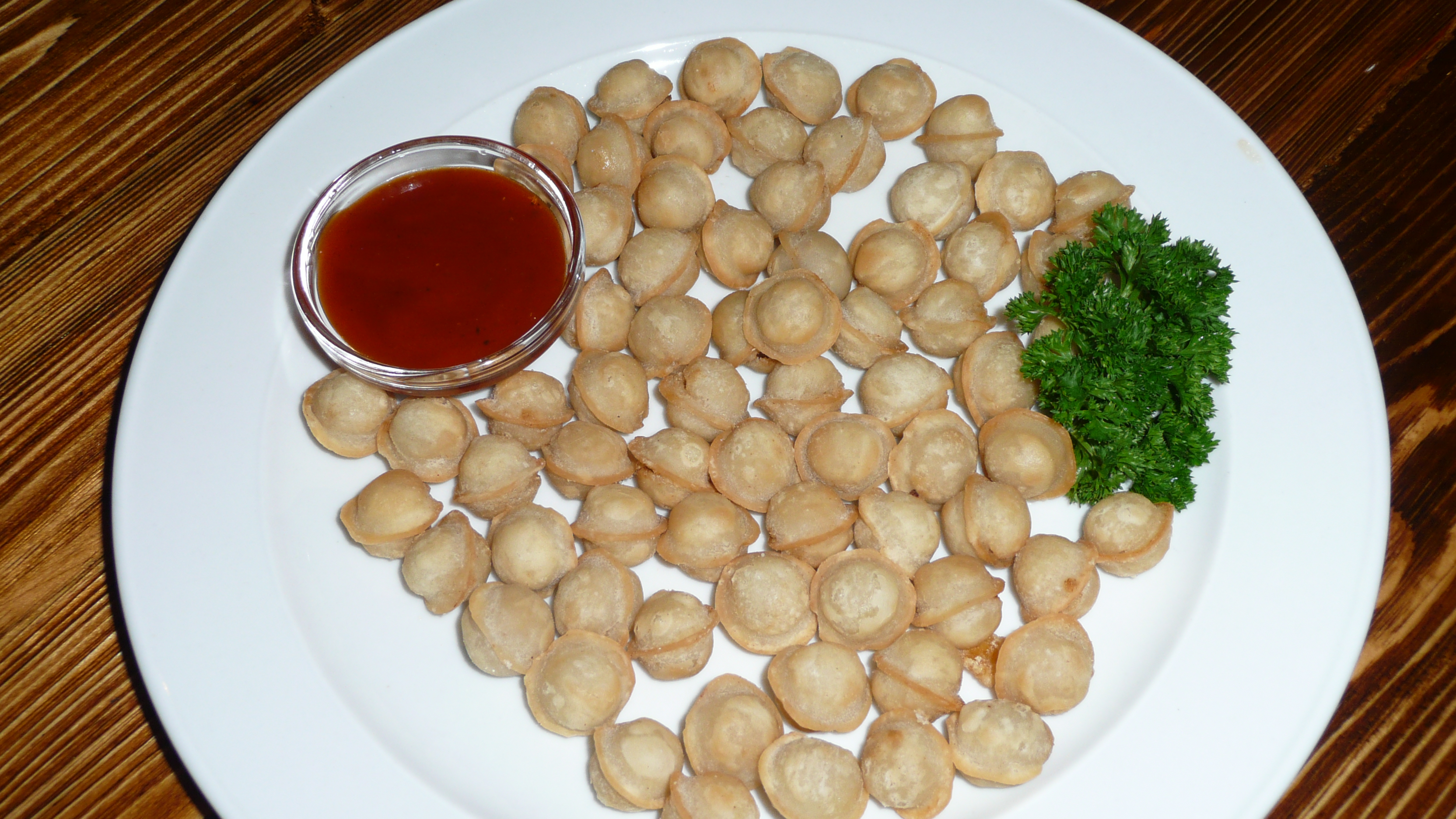 Mini-Pelmeni (Shariki) in a Moscow restaurant (Golden Vobla)